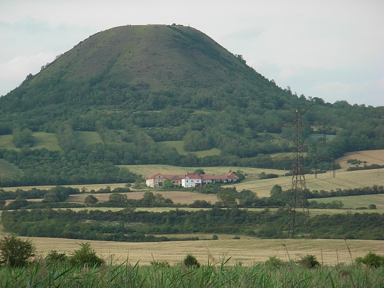 Oblík hill in České Středohoří.